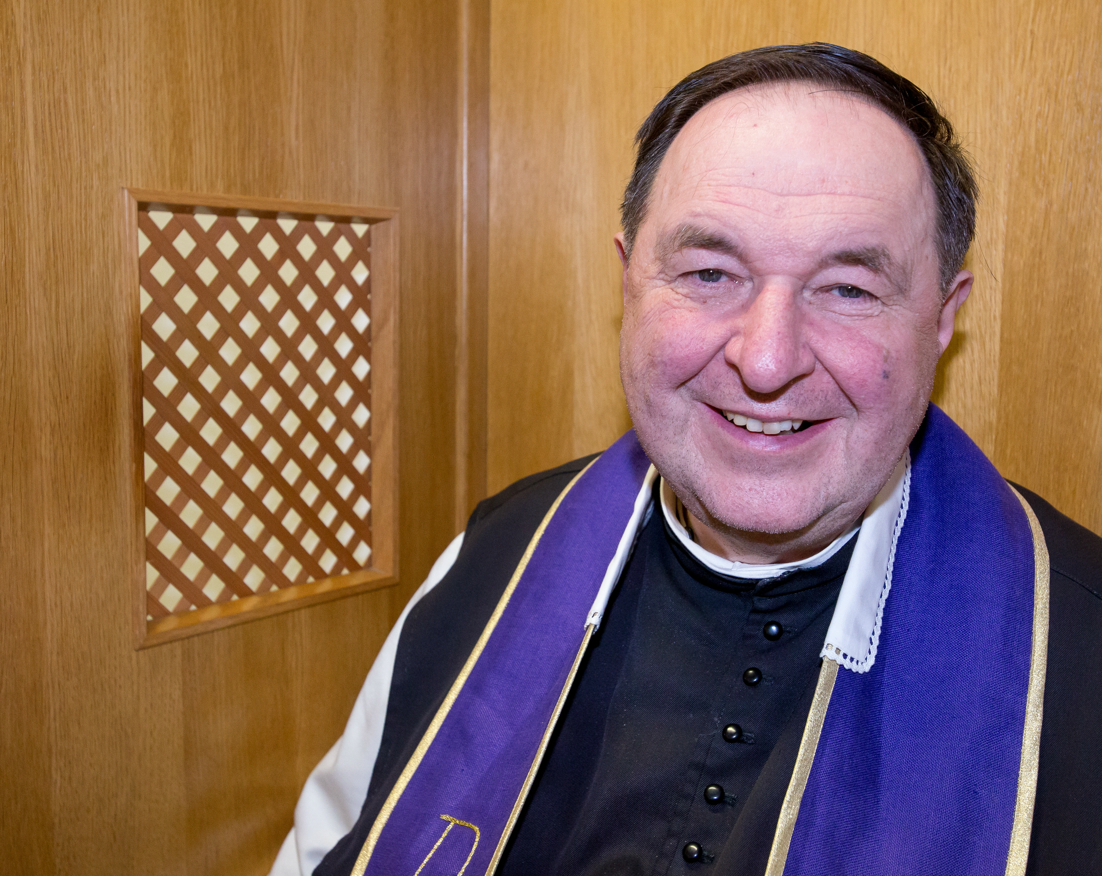 Roman Catholic priest in the confessional.